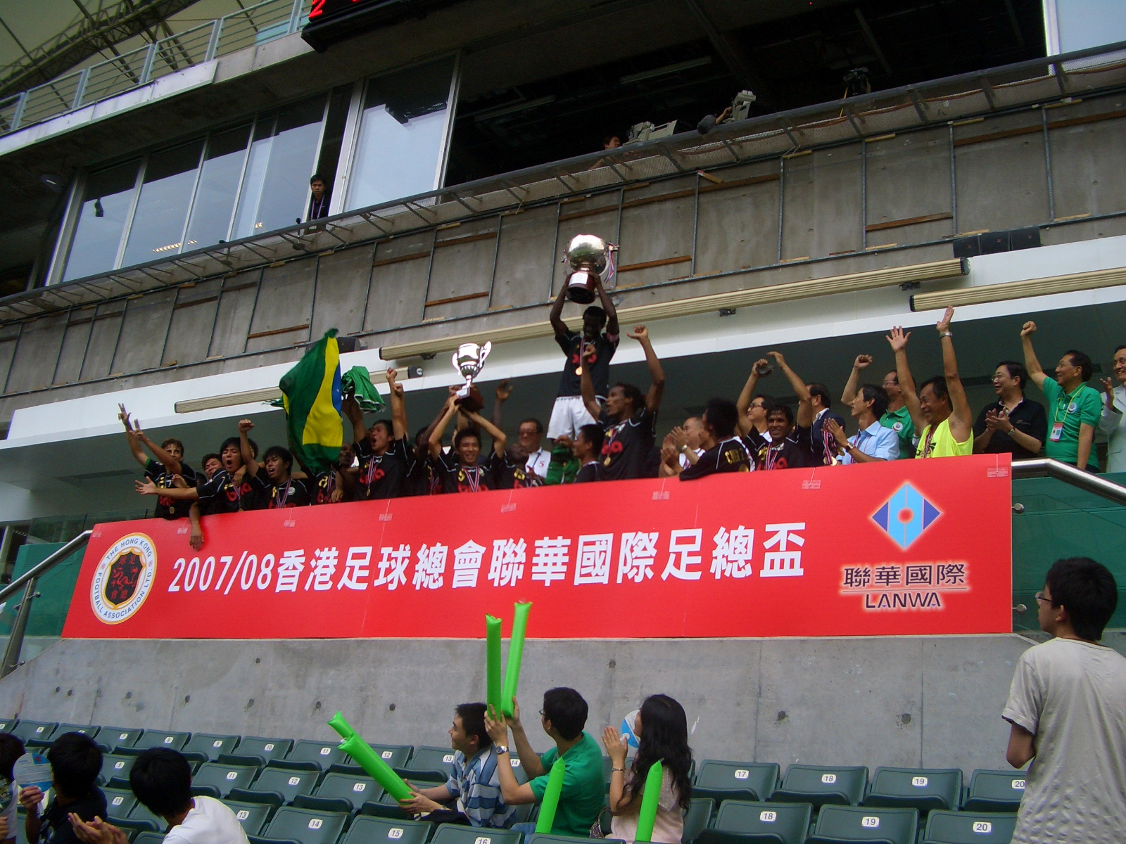 Citizen AA players are celebrating after win of Hong Kong Cup